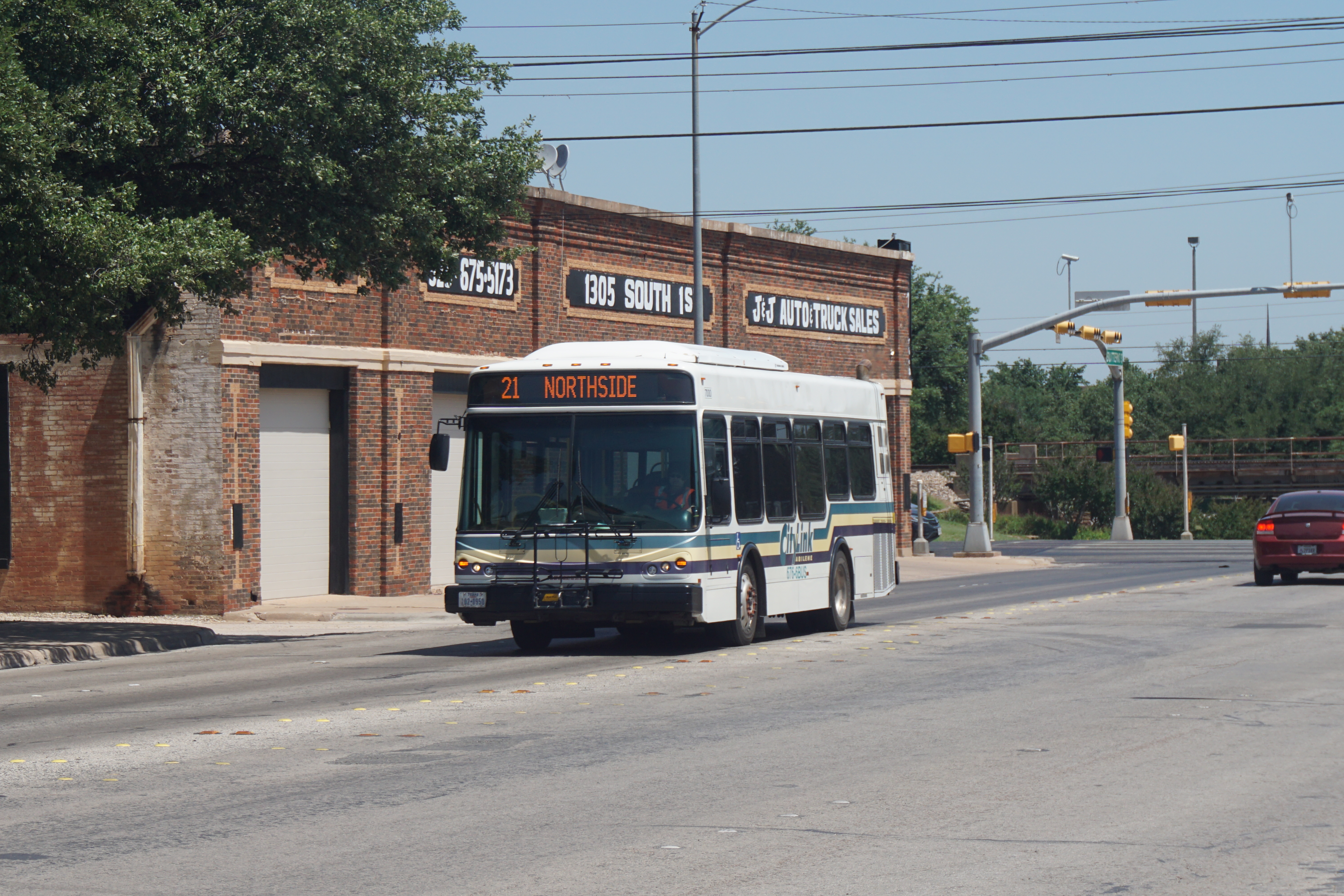 A CityLink bus in Abilene, Texas (United States).